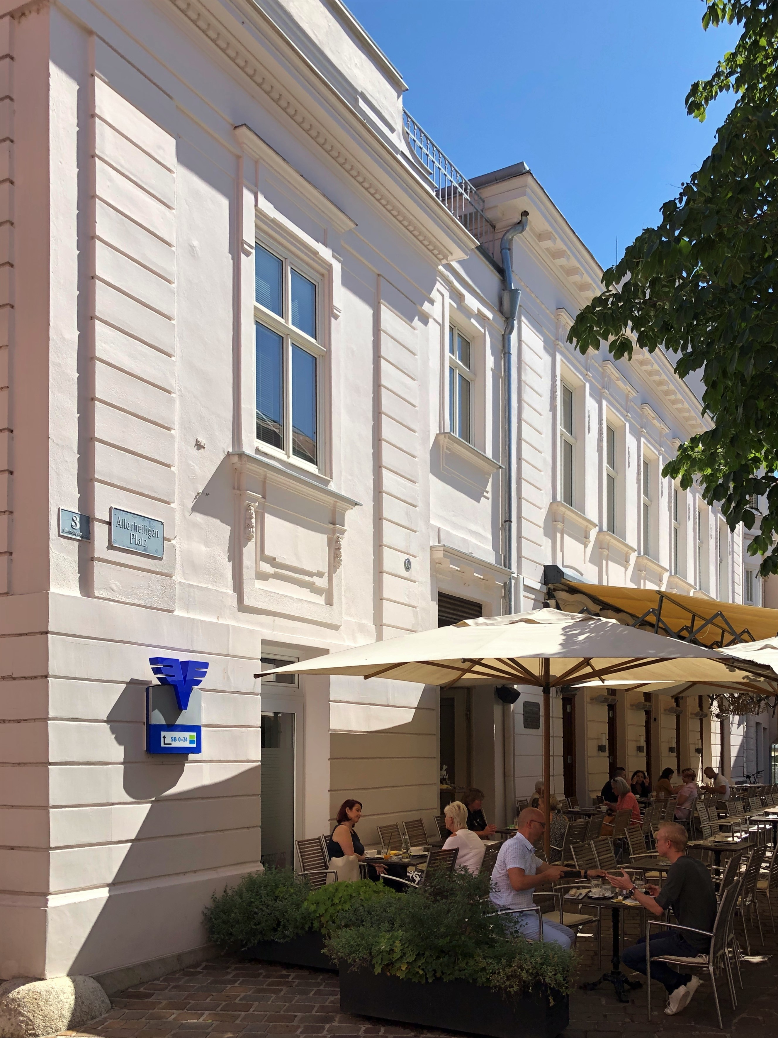 In Allerheiligenplatz 1 in Wiener Neustadt, Lower Austria, there was the medieval synagogue and, in the 19th century, a protestant house of prayer 'Q1381276' (Q1381276)